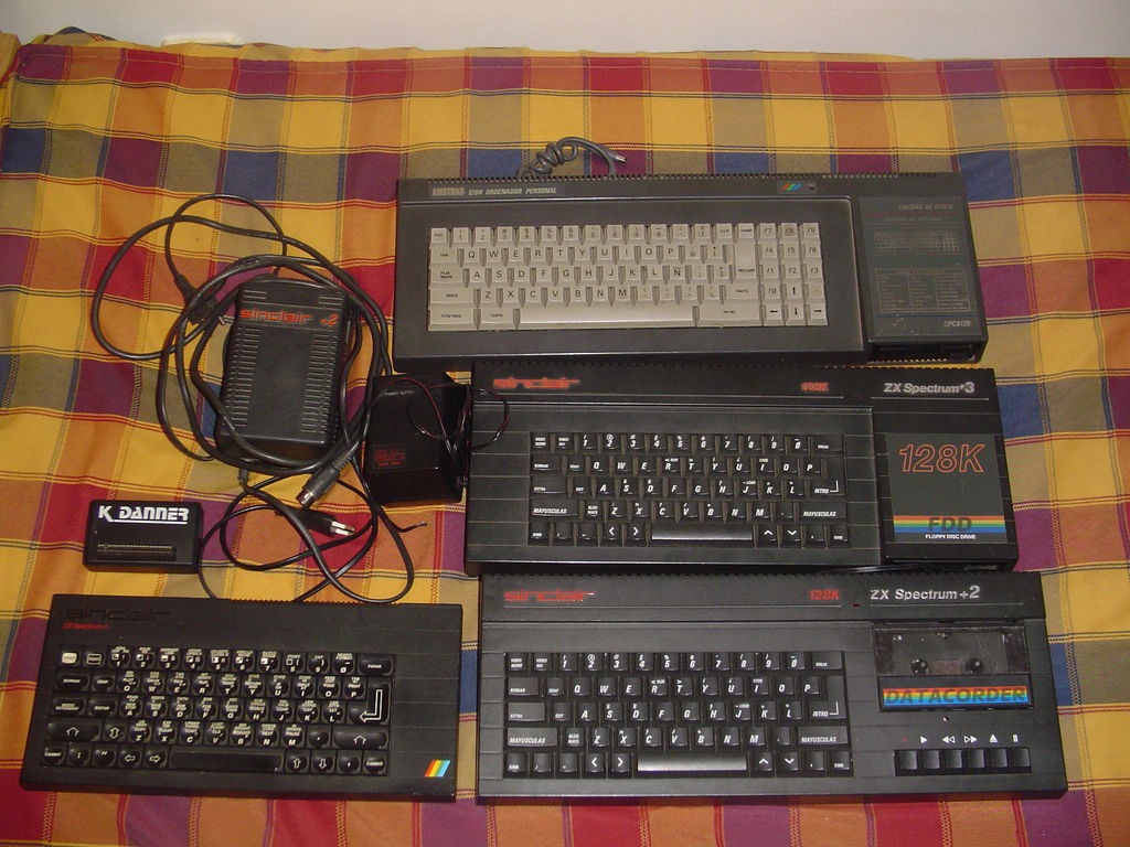 A collection of ZX Spectrums. From top to bottom Amstrad CPC 6128, ZX Spectrum +3, ZX Spectrum +2 and bottom left a ZX Spectrum+